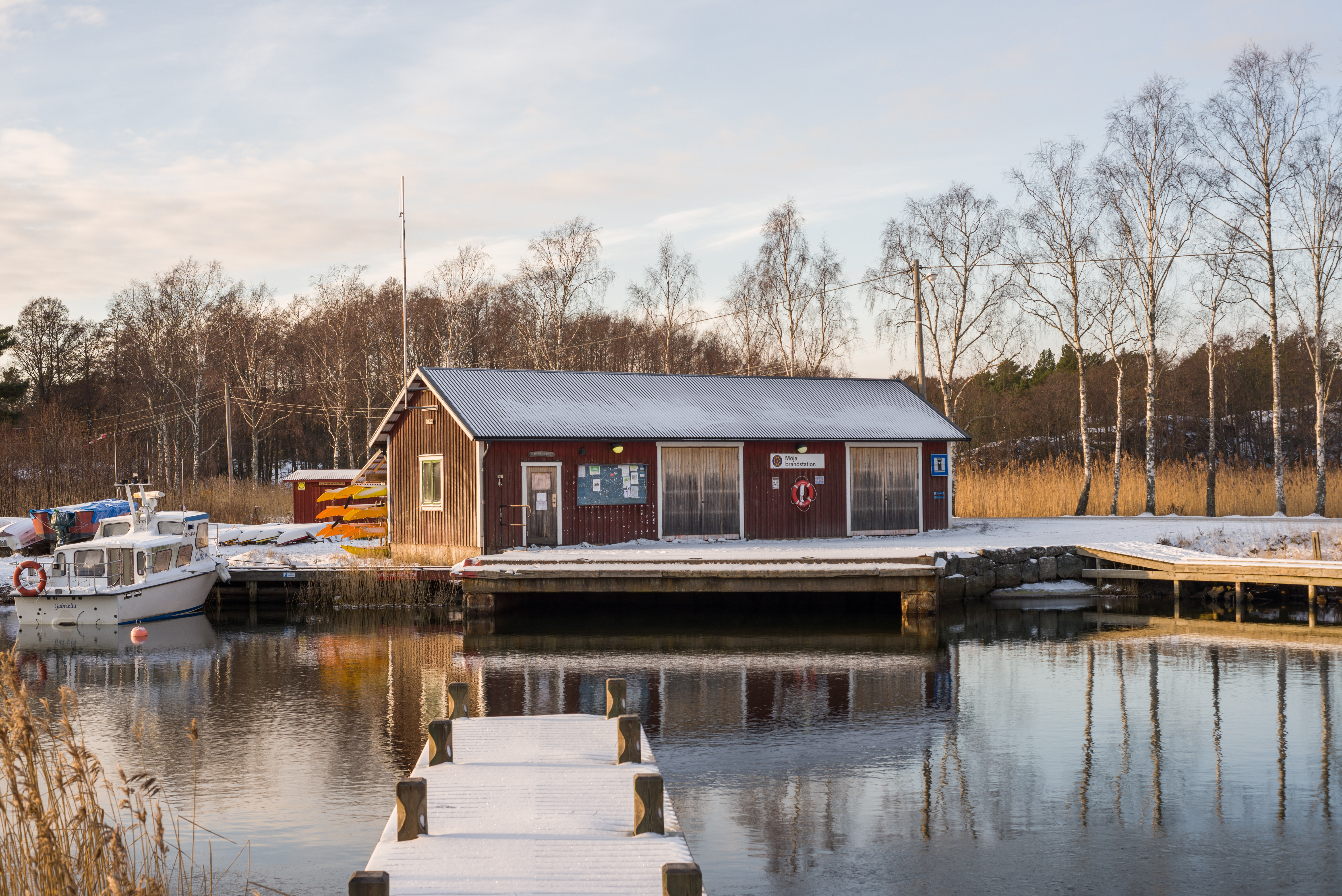 Möja fire station in Berg, a village at Möja island, Stockholm archipelago.